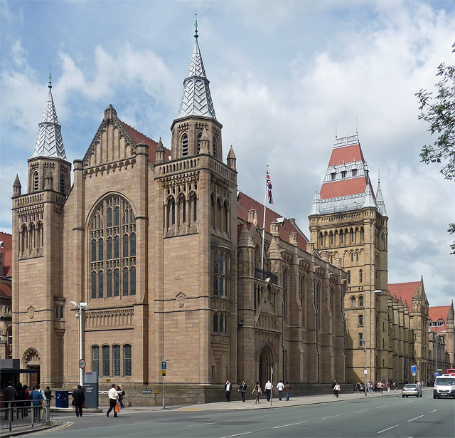 Started by Alfred Waterhouse in 1898 and completed by his son, Paul, in 1902. Named after a prosperous local industrialist, Joseph Whitworth, is now used for major functions including graduation ceremonies.